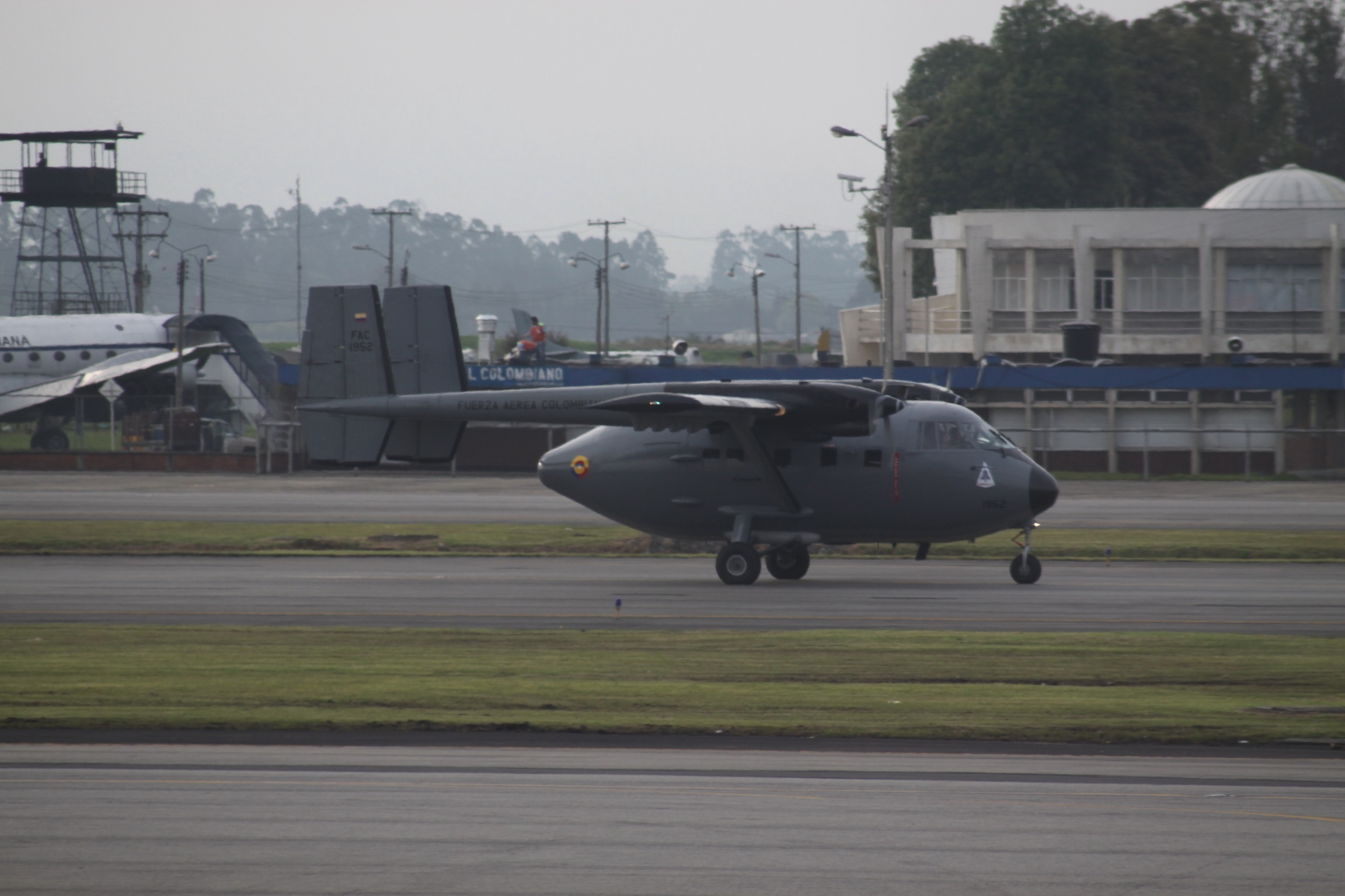 At Bogota El Dorado International